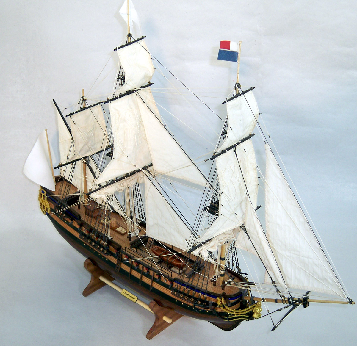 Model of the ship "la Ménagère"